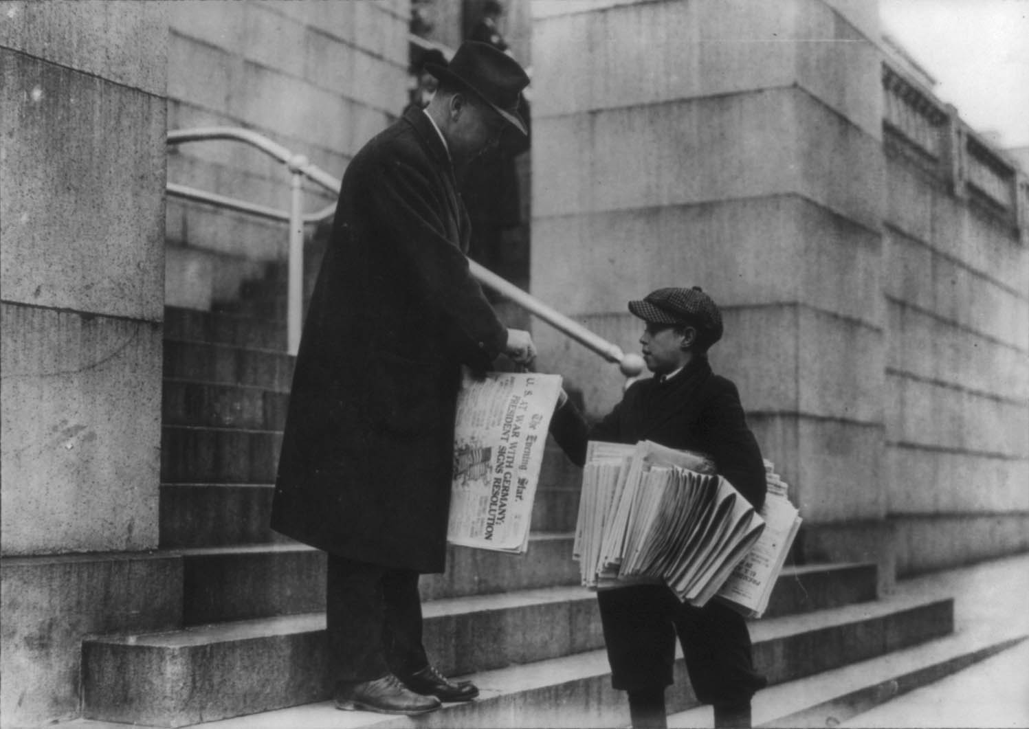 Title: Man buying The Evening Star from newsboy, Washington, D.C. - headline reads "U.S. at War with Germany" Abstract/medium: 1 photographic print.